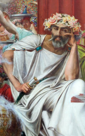 Ritaglio di